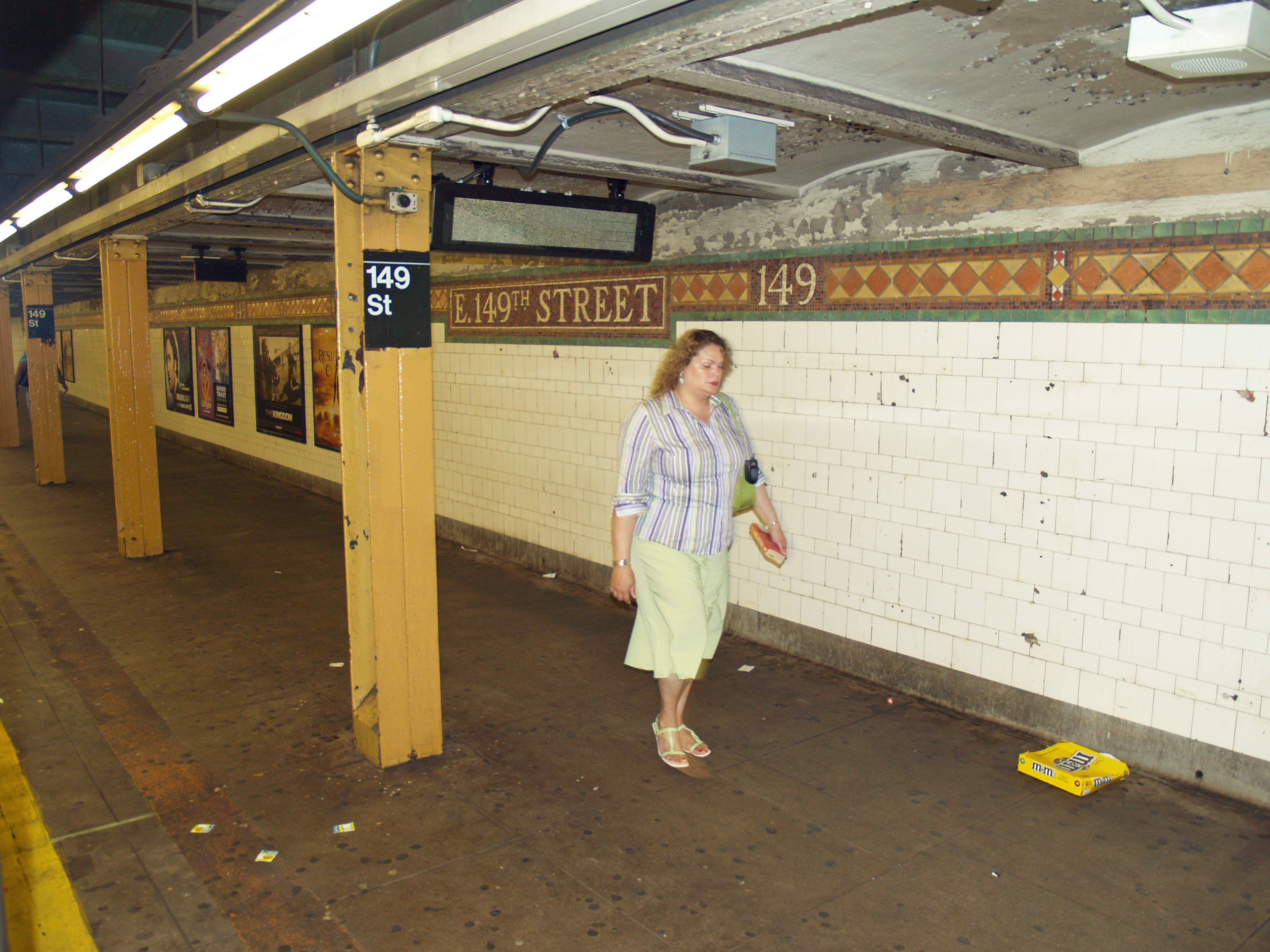 East 149th Street (IRT Pelham Line) by David Shankbone